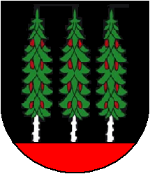 Coat of arms of Wald, Canton of Appenzell Ausserrhoden, SwitzerlandEsperanto: Blazono de Wald, Apencelo Ekstera, Svislando